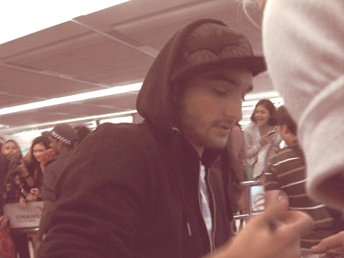 Tom Parker at Changi Aiport, Singapore